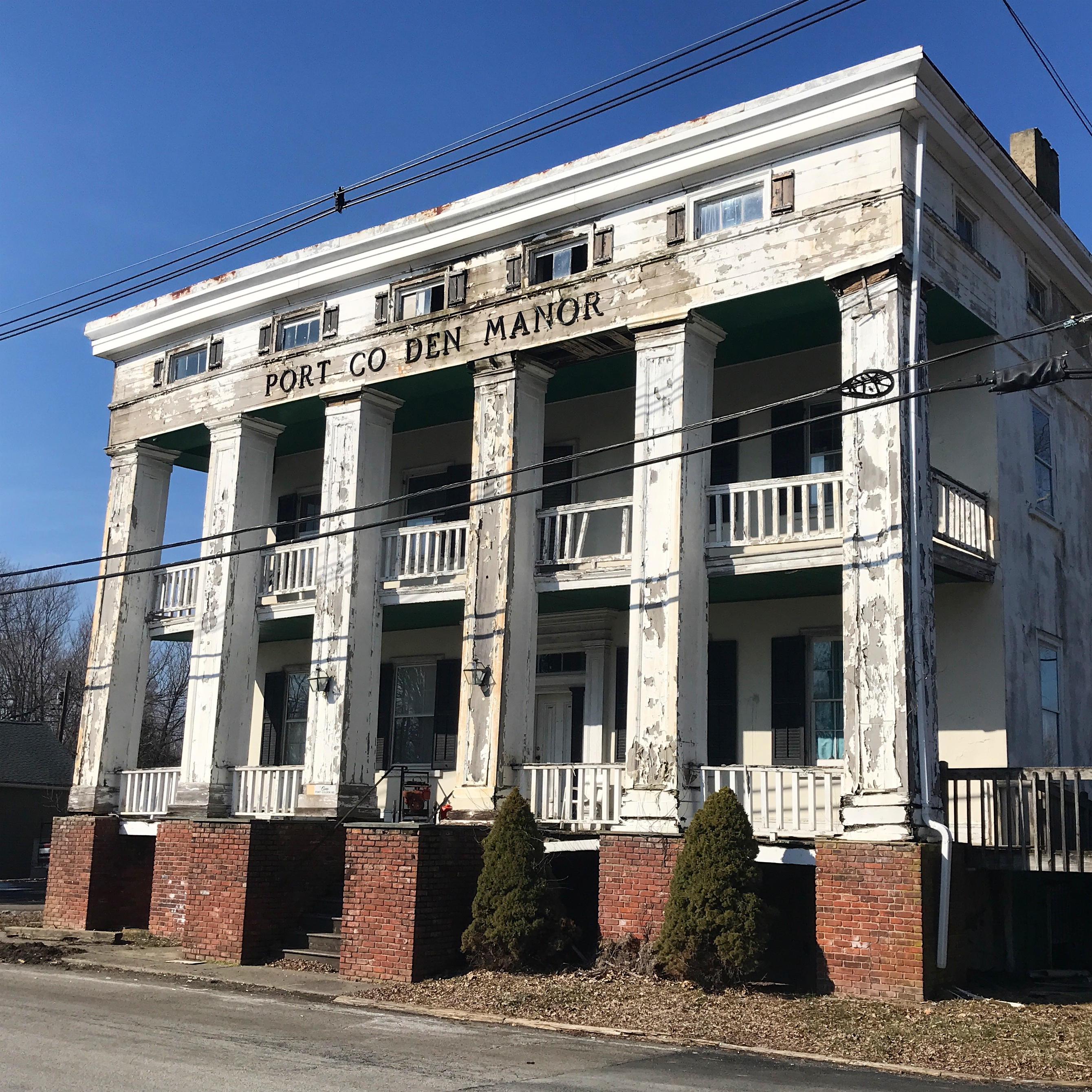 The Port Colden Manor, also known as the Port Colden House, in Port Colden, New Jersey. Greek Revival architecture, built in 1835. Contributing property #26 in the Port Colden Historic District.